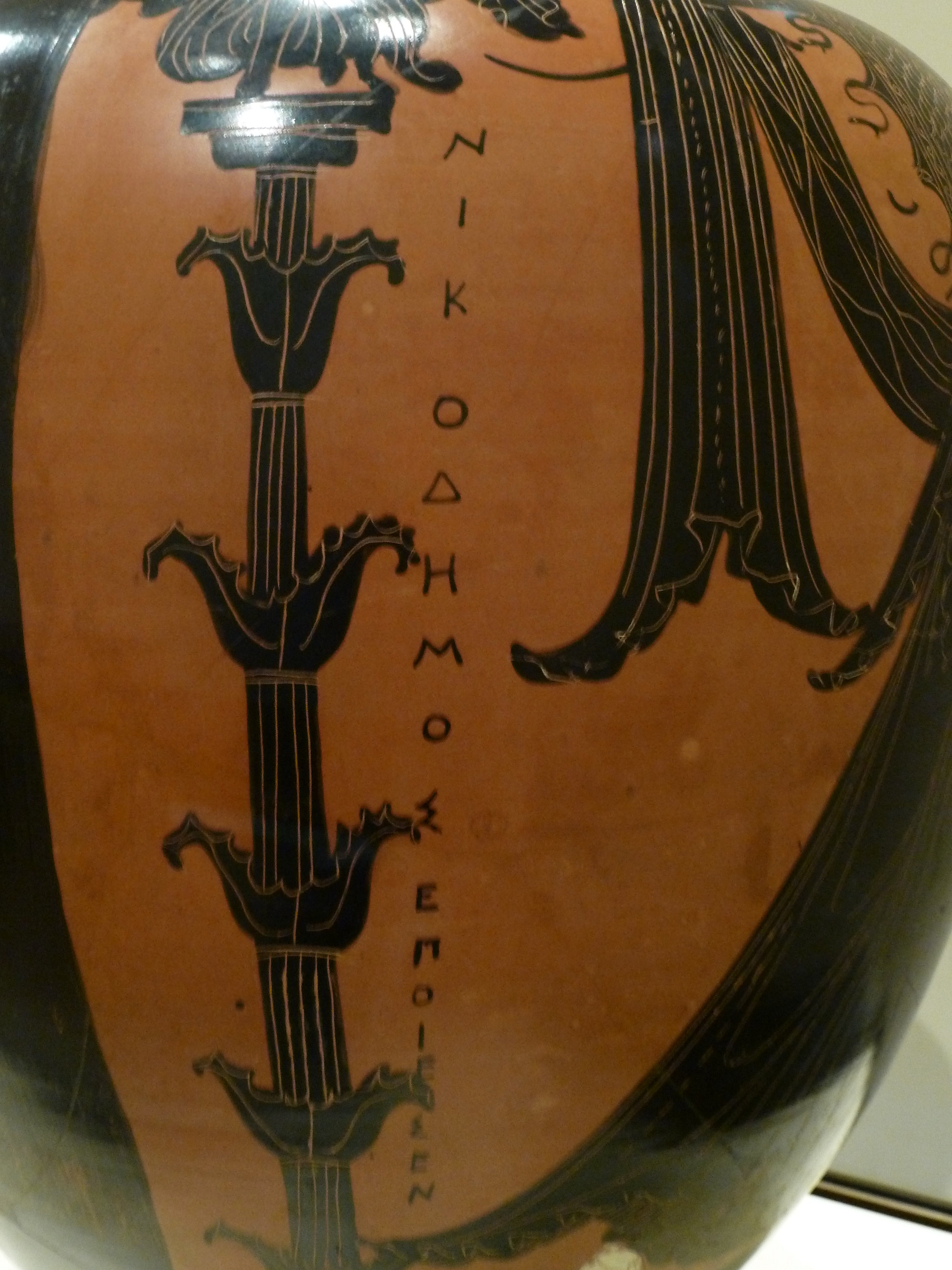 Prize Vessel from the Panathenaic Athenian Games (Greek, Athens, 363-362 BC.) - signed by Nikodemos, the potter.